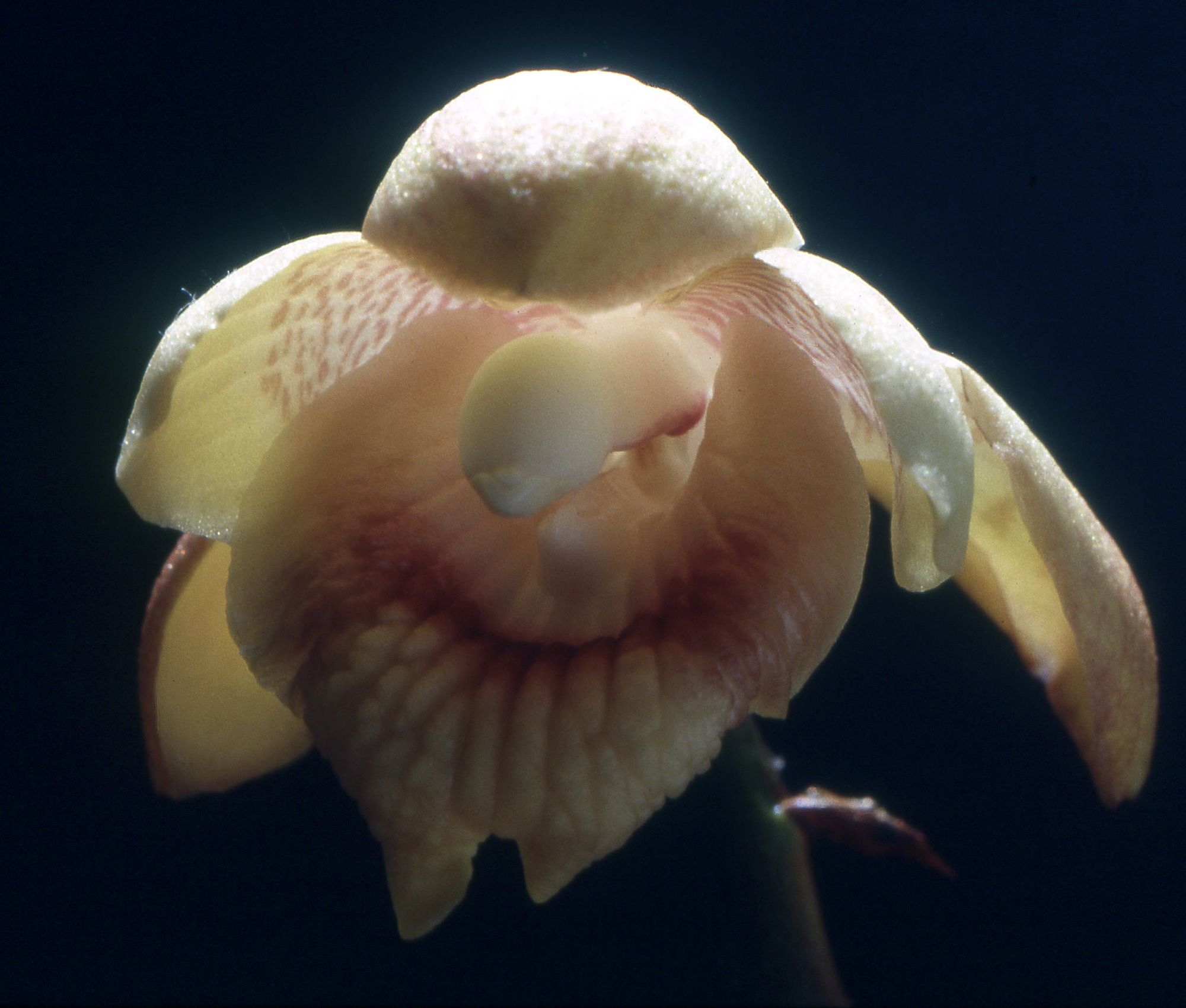 Warrea warreana